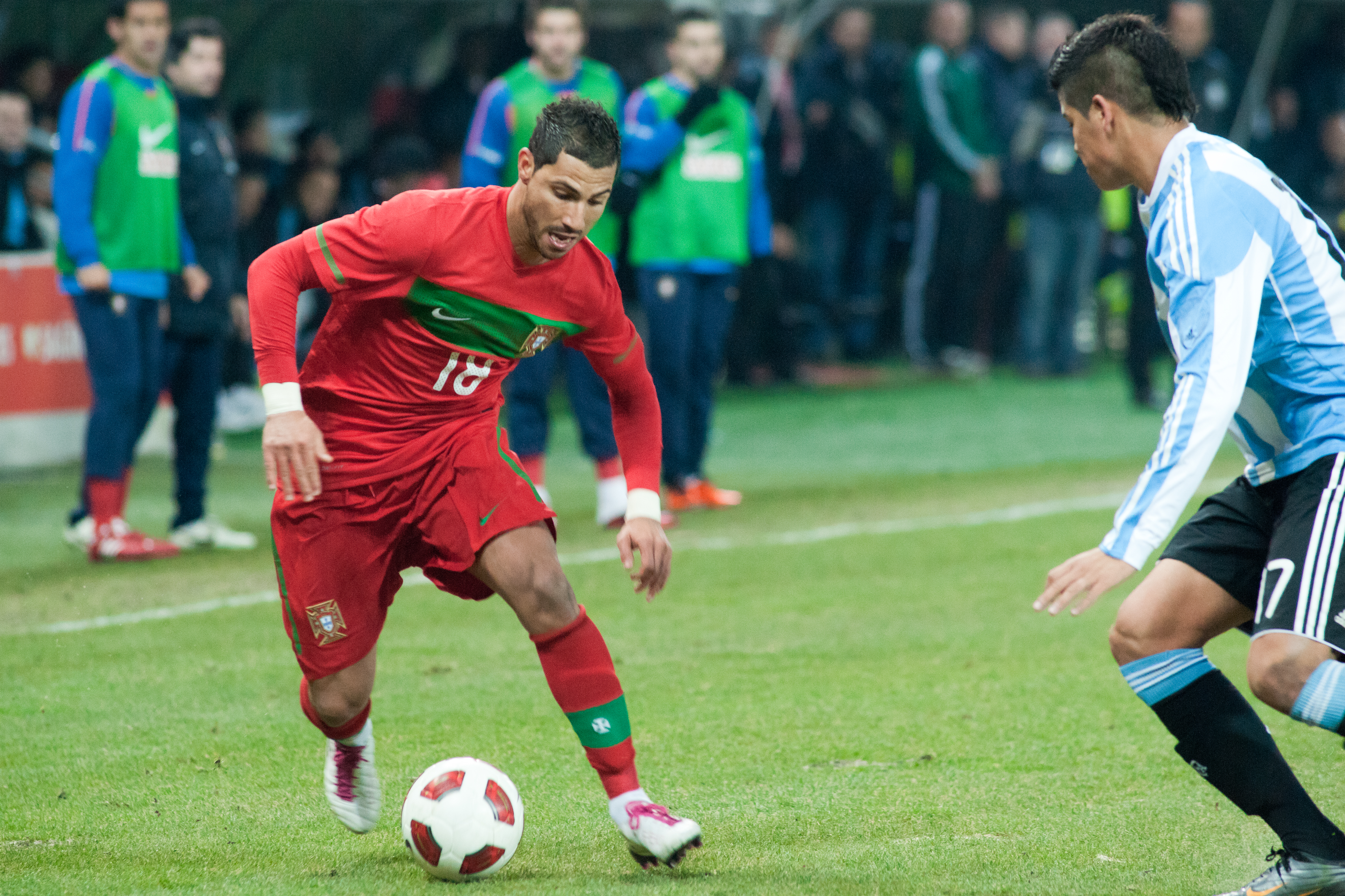 The making of this document was supported by Wikimedia CH. (Submit your project!) For all the files concerned, please see the category Supported by Wikimedia CH. Portugal vs. Argentina, 9th February 2011